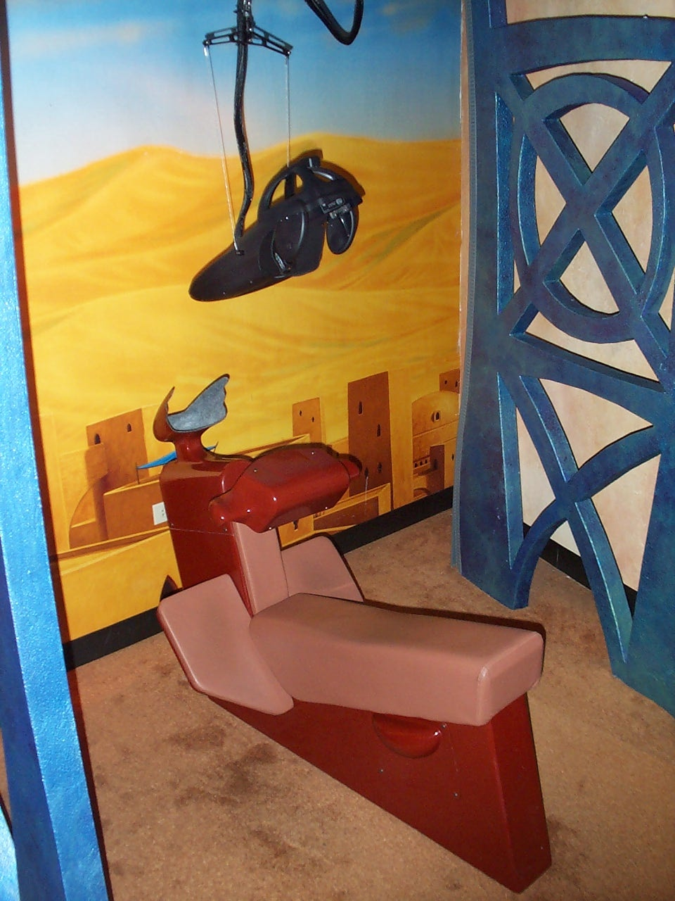 Aladdin's Magic Carpet Ride (seat and head-mounted display) at DisneyQuest in Chicago.